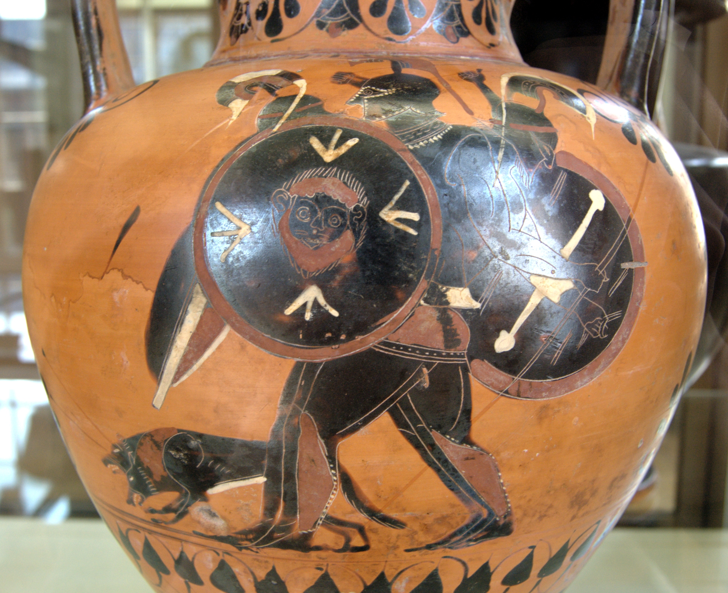 Geryon and Orthrus. Side B of an Attic black-figured neck-amphora, ca. 540 BC. From Vulci.